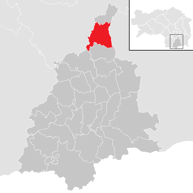 District Leibnitz